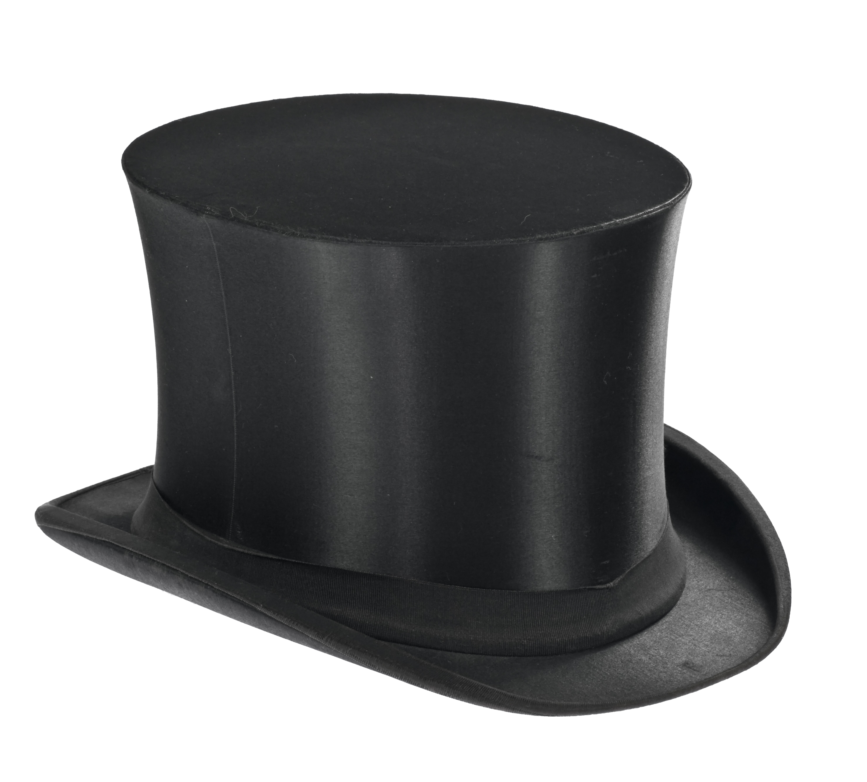 Collapsible top hat